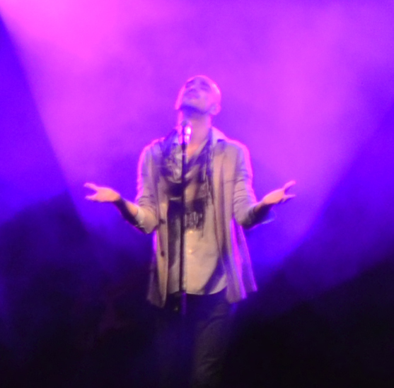 Abel Pintos singing in Melincue, Argentina